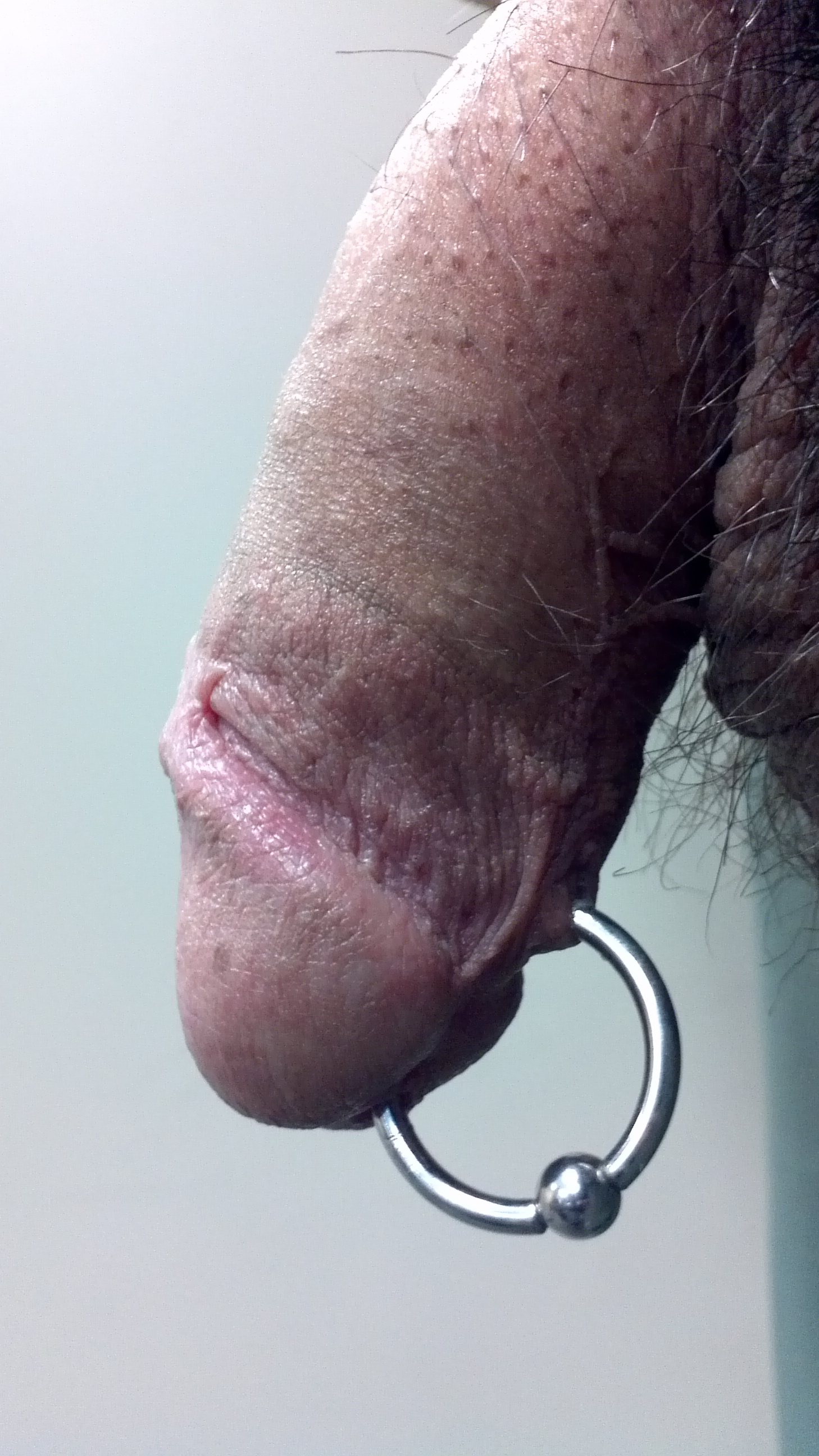 A 10 guage CBR as a Prince Albert Piercing